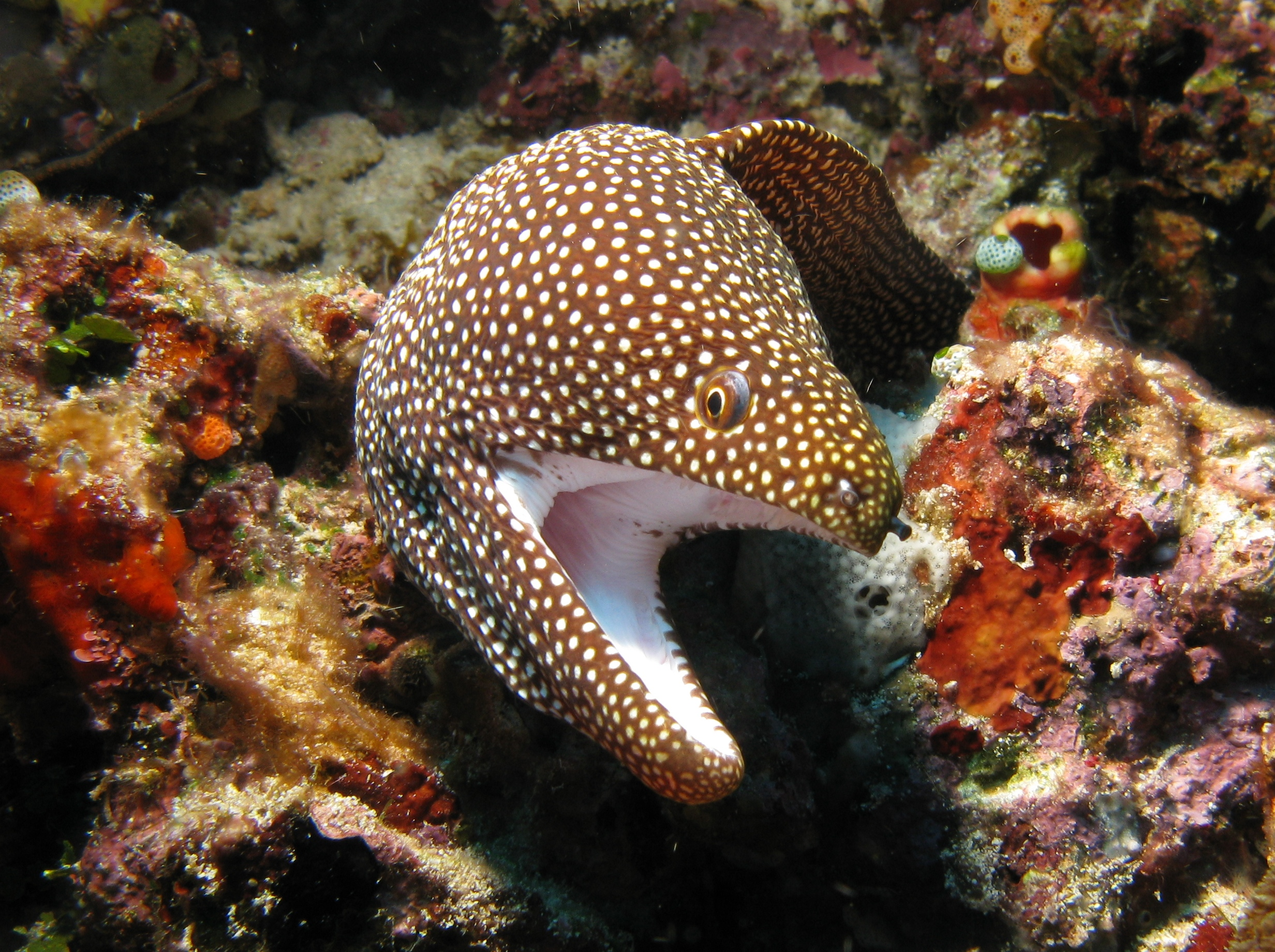 White-mouth moray (Gymnothorax meleagris) from North Sulawesi, Indonesia.